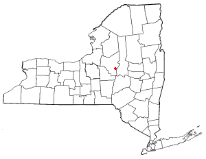 Map of New York highlighting Utica